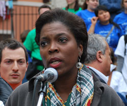 Ambassador Ertharin Cousin, the United States Representative to the United Nations Agencies for Food and Agriculture, addresses volunteers at the Earth Day Tri-Mission Community Project in Rome, Italy.